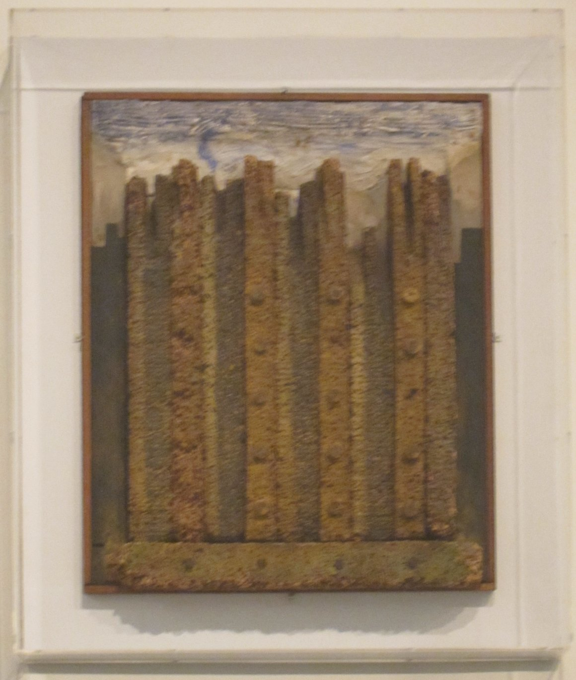 Dadaville, painted plaster and cork laid on canvas by Max Ernst, c. 1924, Tate Modern